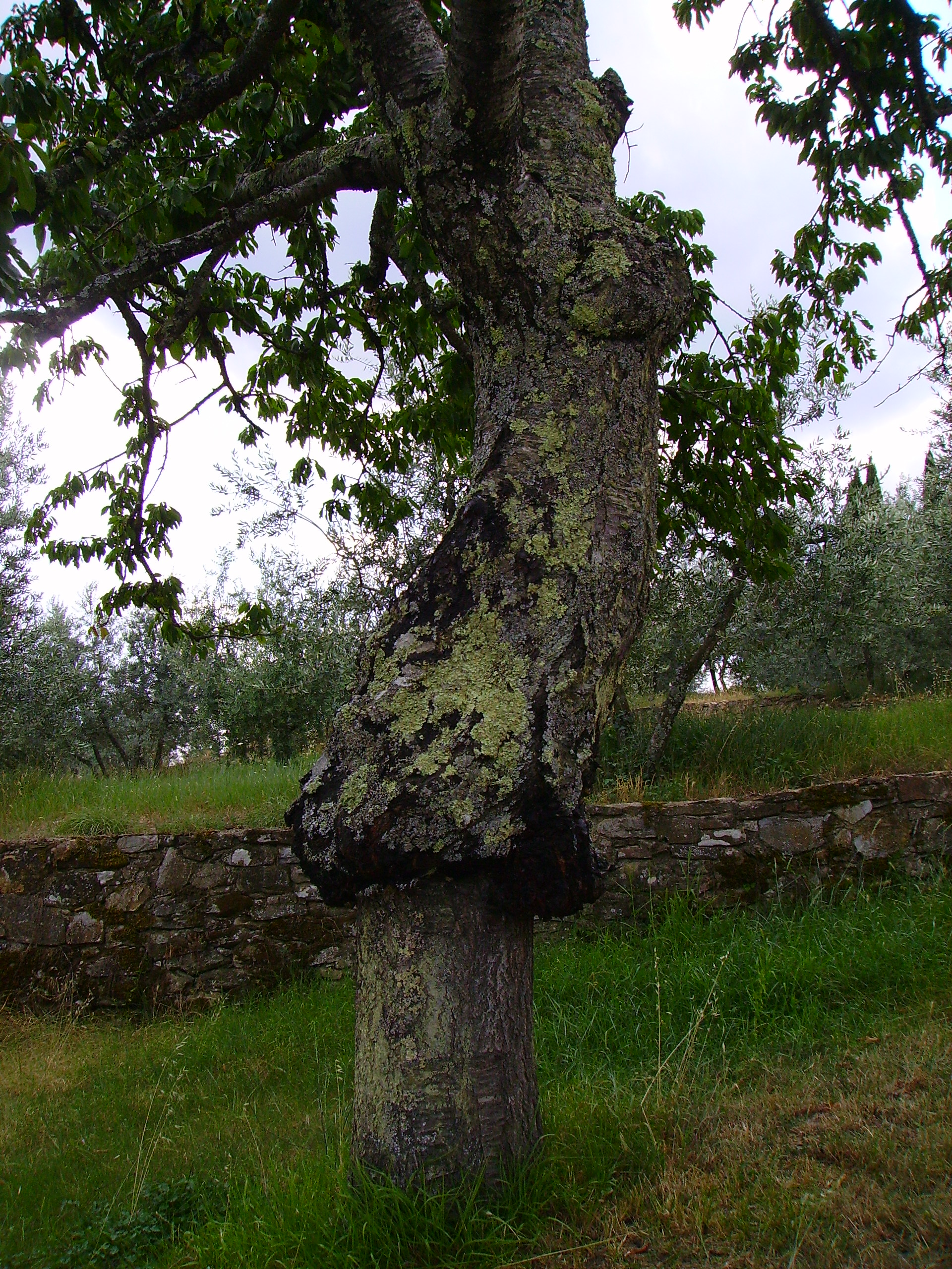 A grafted tree in Galatrona (Tuscany)